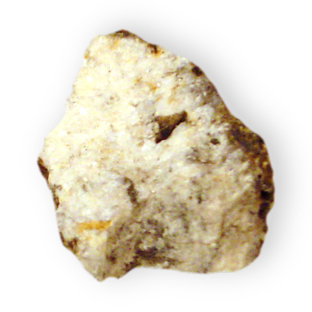 These mineral images are free to use how you wish.